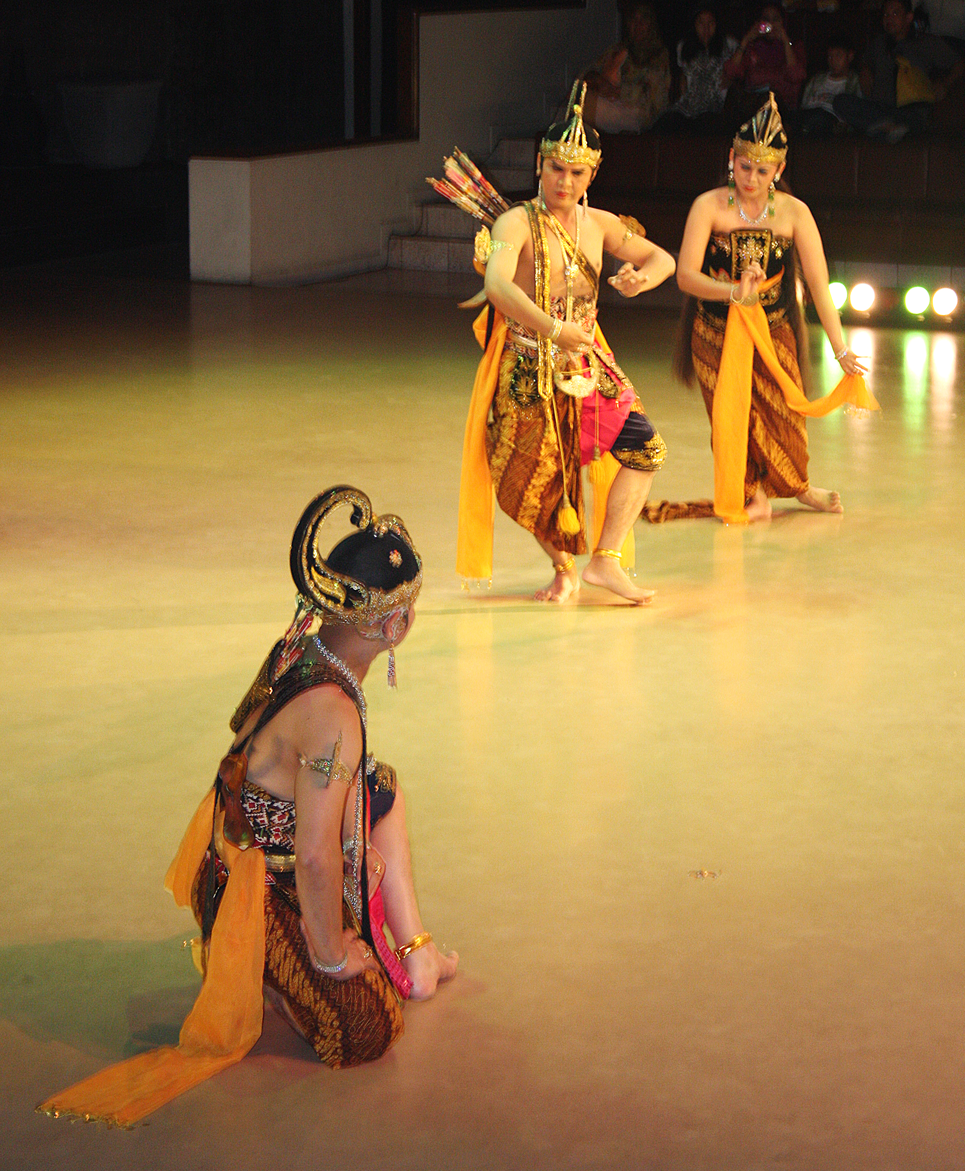 Ramayana Javanese ballet dance depicting Rama and Sita (upper right) accompanied by Lakshmana (bottom left) during their exile in Dandaka Forest.